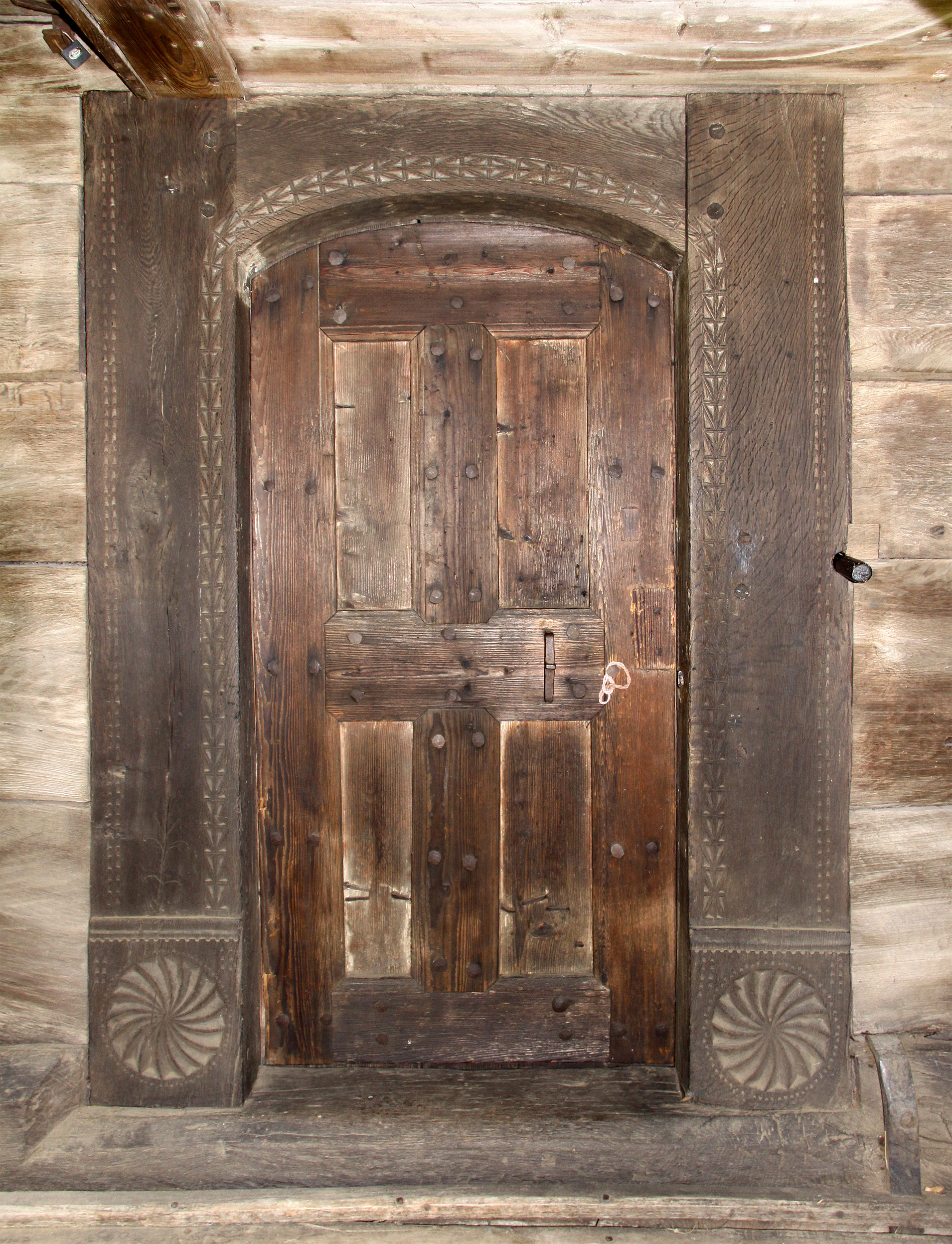 Petrindu, Sălaj: wooden church in The Ethnographic Museum in Cluj Napoca, Romania. Porch at the entrance.